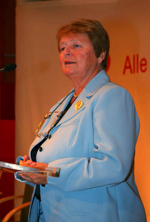 Gro Harlem Brundtland. Gro Harlem Brundtland, former prime minister of Norway and director-general of the World Health Organisation. Photo is taken at ”The Congress of the Norwegian Labour Party” 2007.